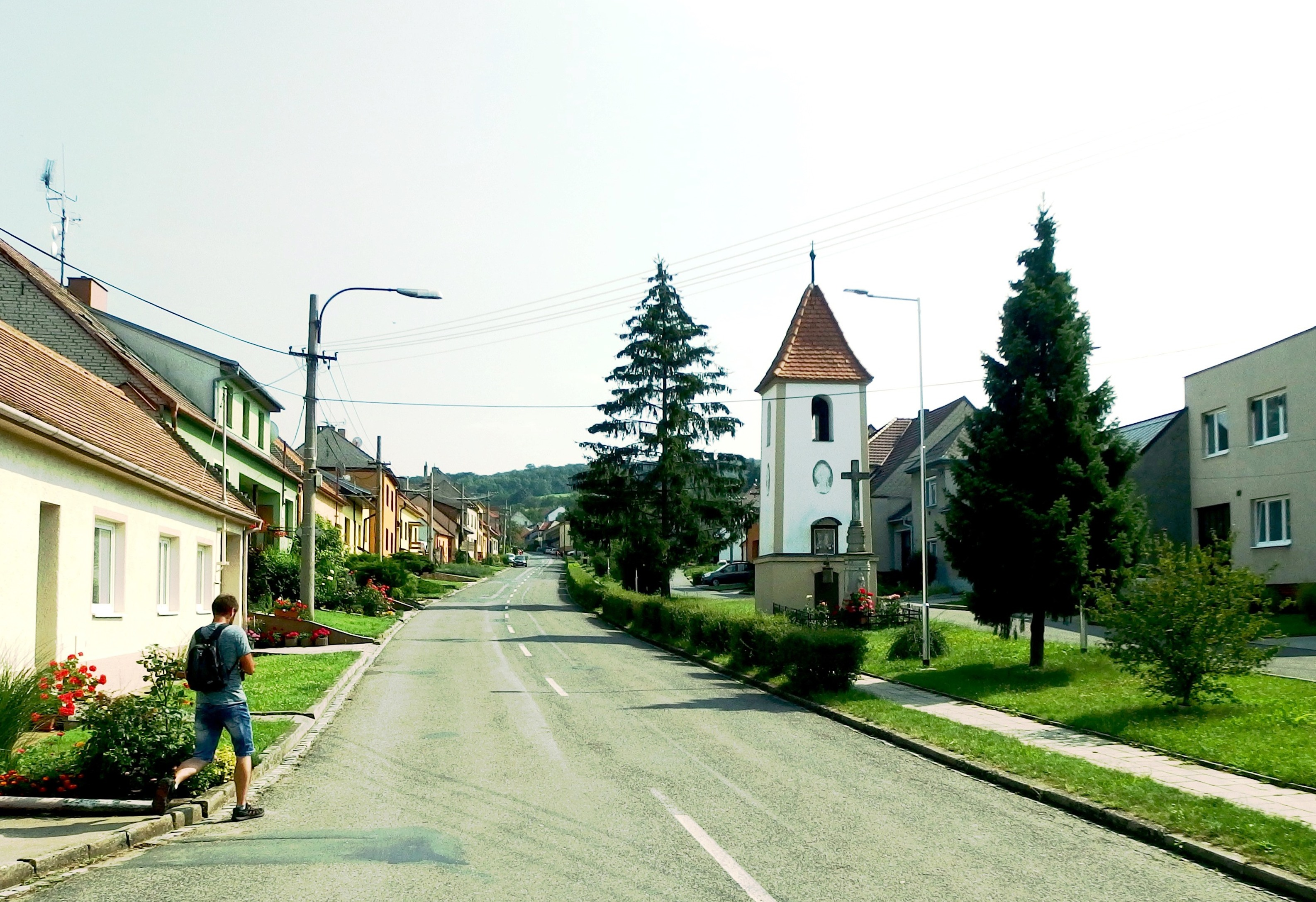 Tvarožná Lhota, Hodonín District, Czech Republic.